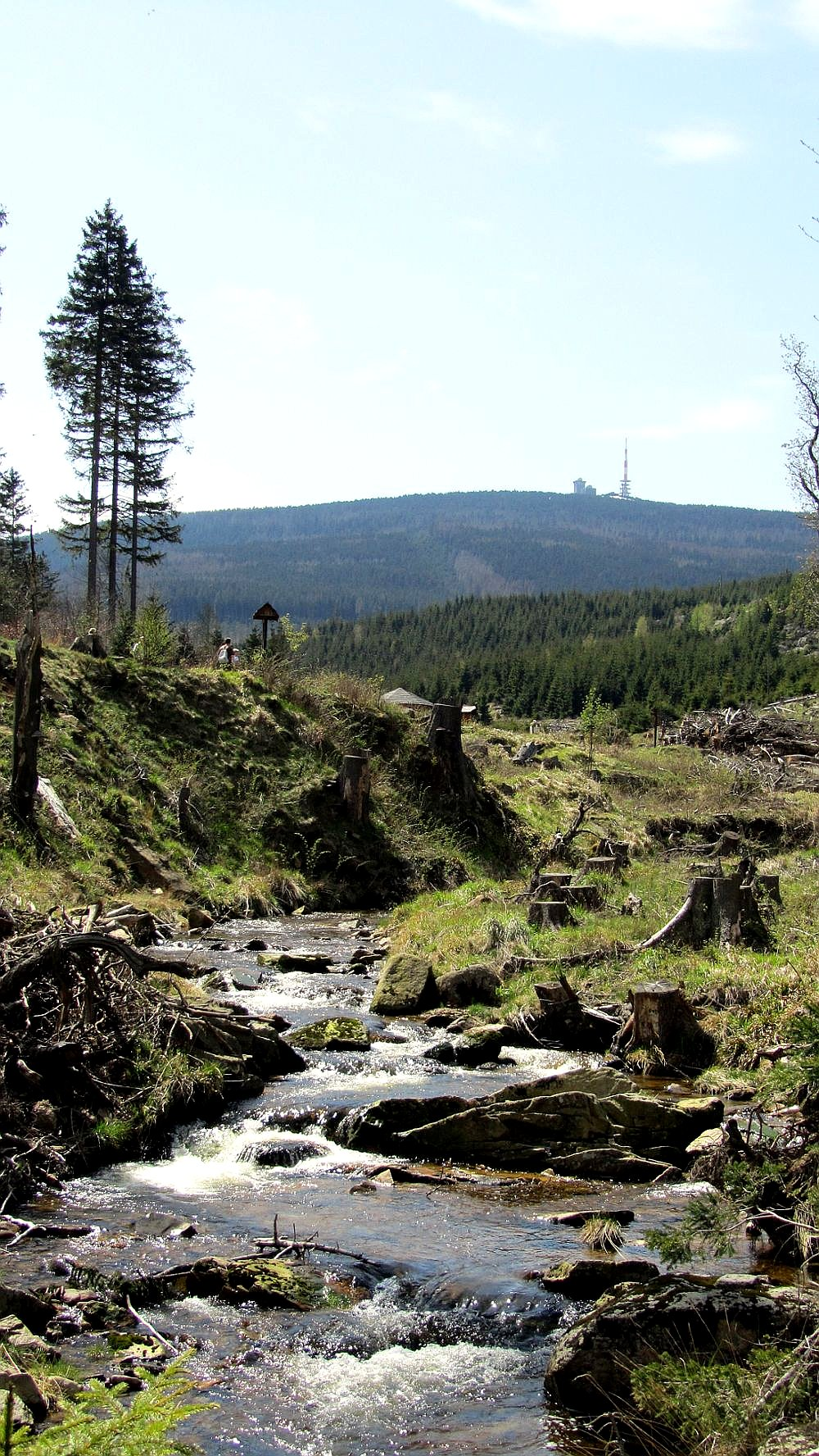 Germany / Harz: Mountain Brocken out of valley Ilsetal